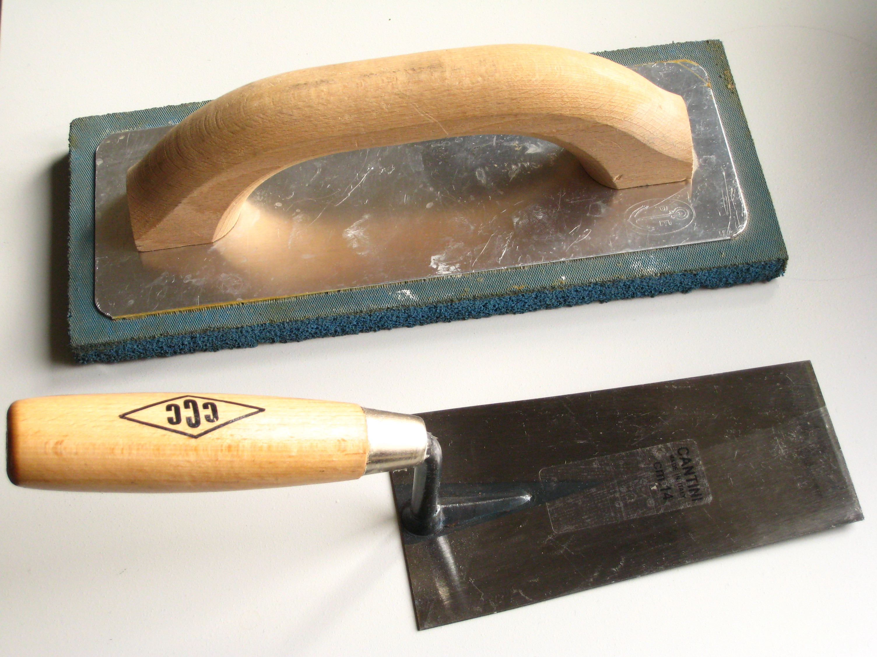 A grouting float and a plaster trowel below.